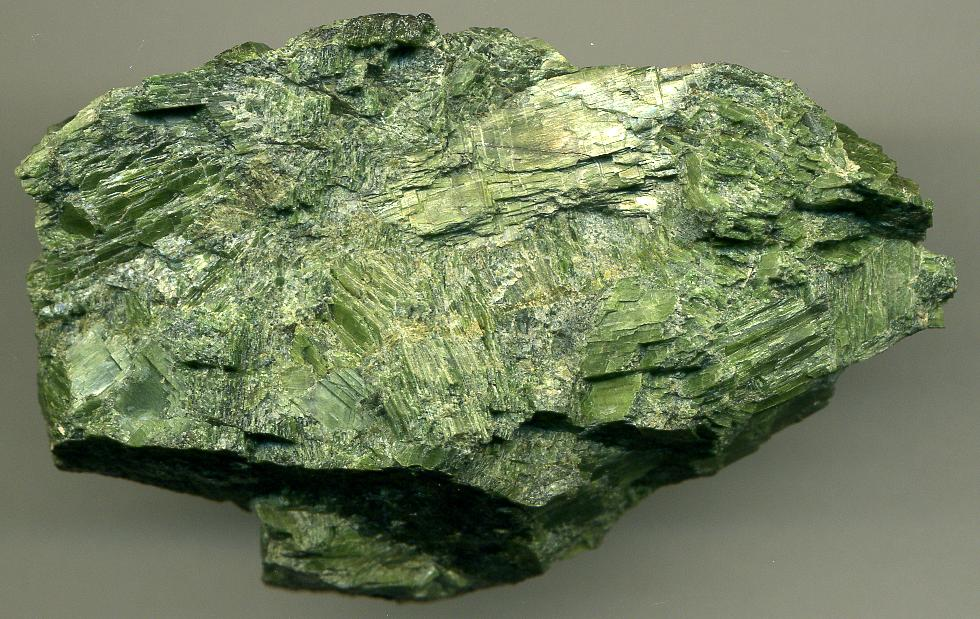 Metapyroxenite (8.0 cm across) composed of chromian diopside pyroxene ((Ca,Cr)MgSi2O6 - calcium chromium magnesium silicate). Because this pyroxenite (a clinopyroxenite, really) is all diopside, a better rock name is diopsidite. This is from an ophiolite complex (Shetland Ophiolite Complex; a.k.a. Unst Ophiolite Complex) exposed on the island of Unst in the northeastern Shetland Islands (in the North Sea, between Scotland & Norway). The rocks in the area represent ~basal crustal rocks metamorphosed during the Caledonian Orogeny (~425-500 million years ago). Published research indicates that the original rocks were from a late Neoproterozoic-Cambrian intracontinental, ocean-floored rift basin. This metapyroxenite is from the upper pyroxenite layer of the Unst Ophiolite Complex. Locality: outcrop at Skeo Taing, shores of Balta Sound, eastern margin of island of Unst, northeastern Shetland Islands, Scotland.